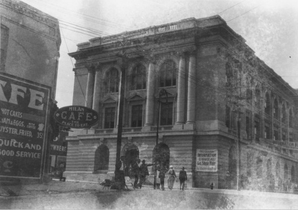 Shreveport, Louisiana, 1916. View of City Hall and "Milan Cafe" restaurant.